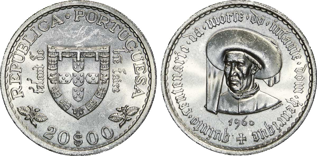 20 Escudos célébrant le 500e anniversaire de la mort de l’infant Don Henrique dit le navigateur,1960. Prince du Portugal, Henri est considéré comme le précursseur de l’expansion coloniale portugaise. En 1414, il prend Ceuta et en chasse les pirates maures. Sous son impulsion, sont développés la cartographie et les techniques de navigation dont la fabrication de la caravelle. Il lance les premières expéditions sur les côtes d’Afrique..